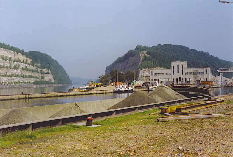 The Albert Canal cutting through the Caestert Plateau (also known as Sint-Pietersberg). On the right, the locks that give access to the Canal de Lanaye.